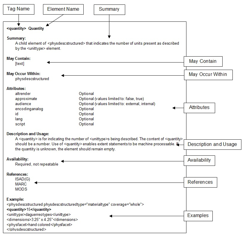 This figure was provided to illustrate the information provided by elements of the 2015 version of the Encoded Archival Description tag library.